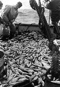 Fishery with white hake from the Northeast Fisheries Science Center (NOAA): public domain image.